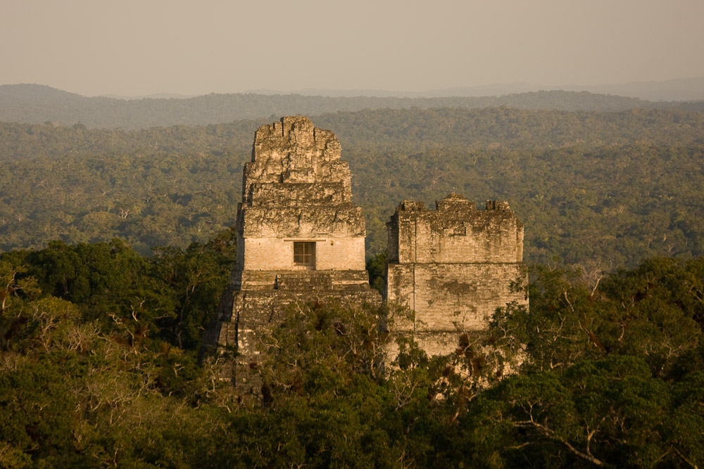 Temples I & II from Temple IV